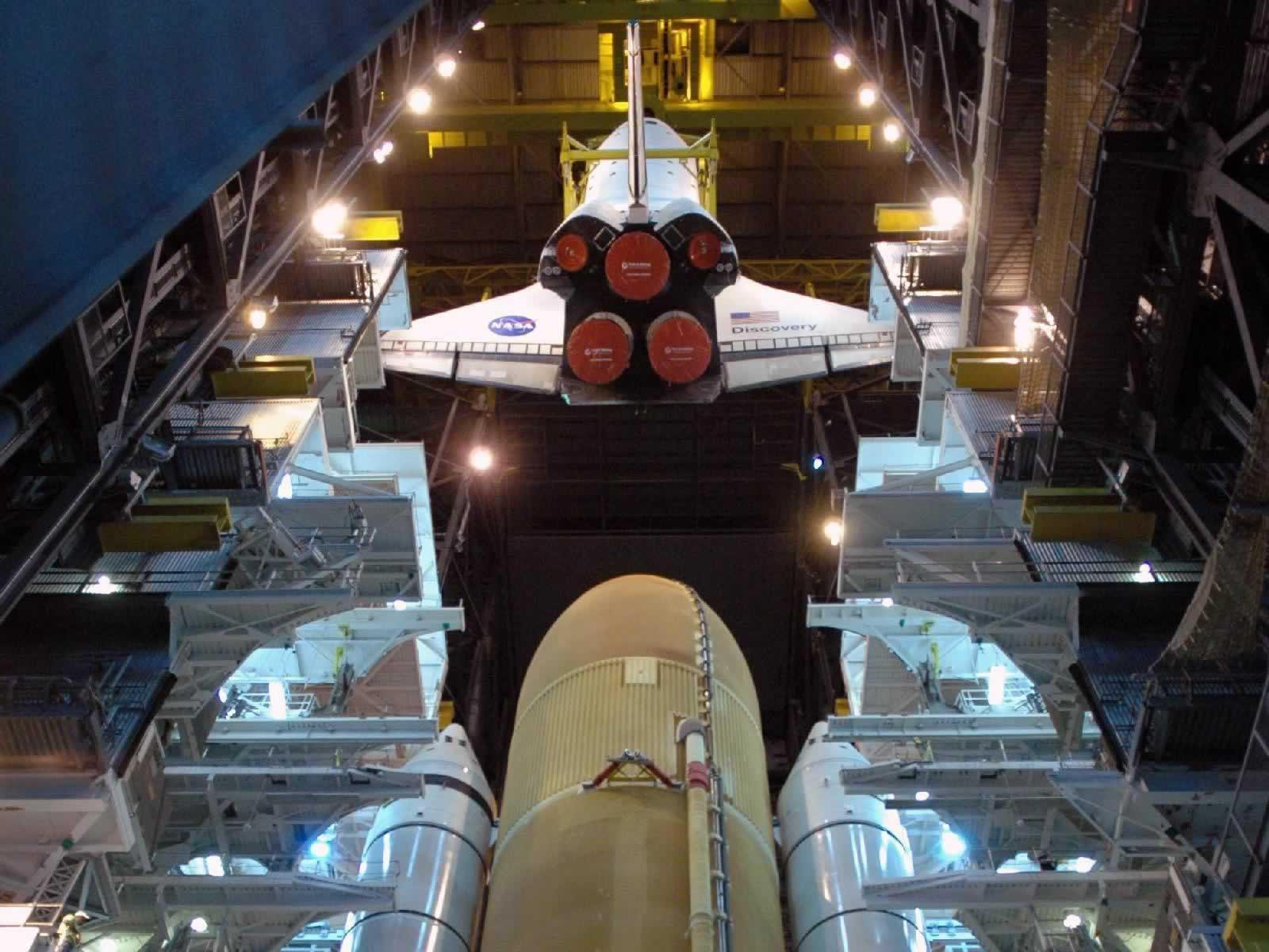 A crane lowers the Space Shuttle Discovery (STS-124) toward the external tank and solid rocket boosters in high bay 3 of the Vehicle Assembly Building at Kennedy Space Center.